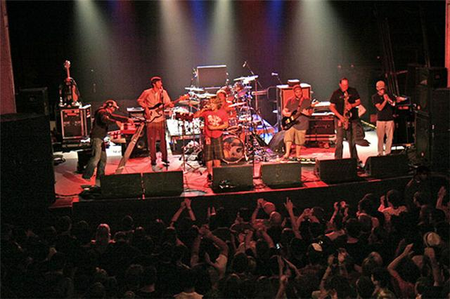 Echo Movement in concert at the Trocadero in Philadephia, PA